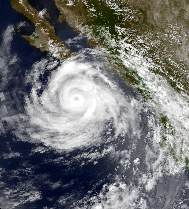 Hurricane Henriette on September 4, 1995